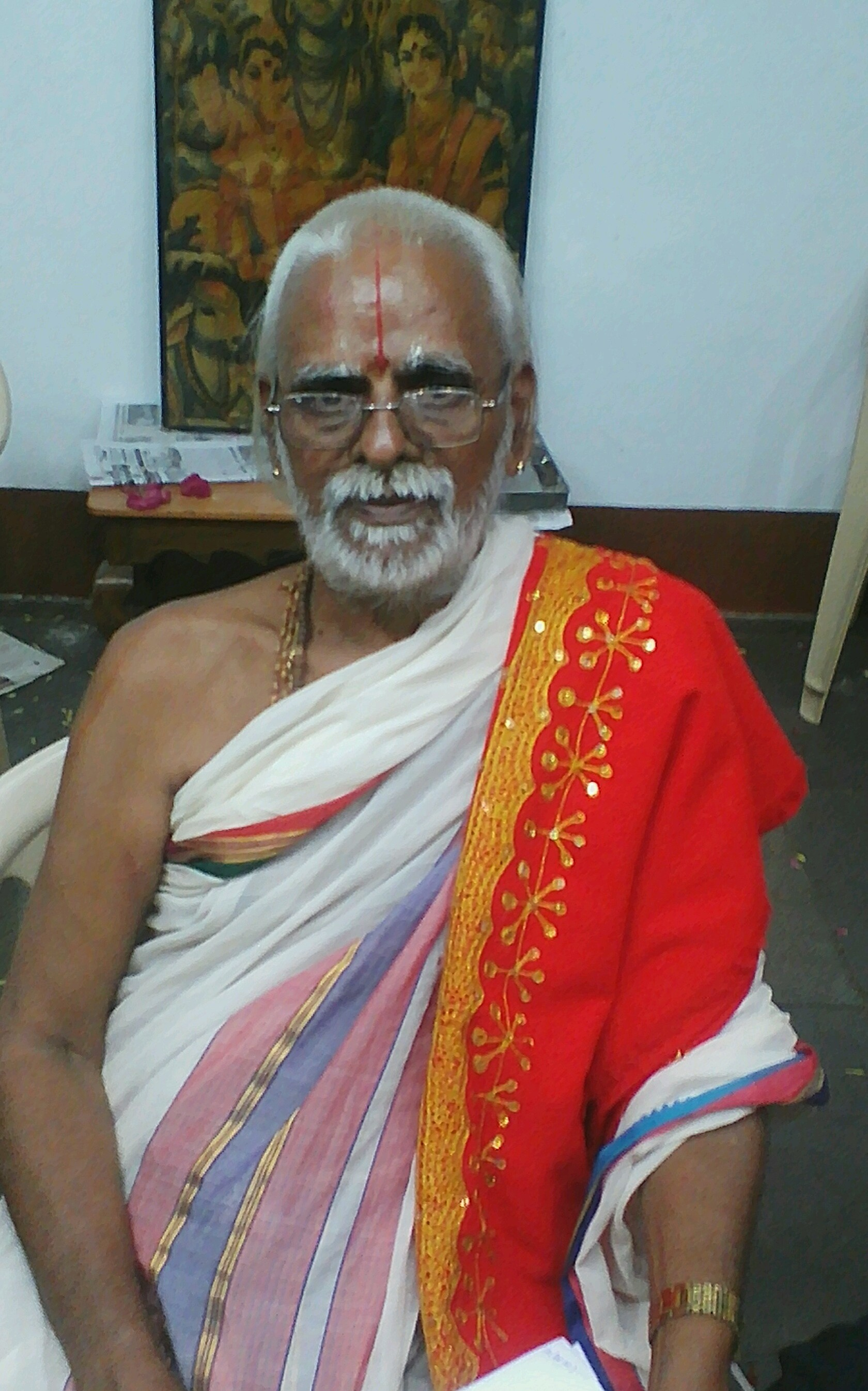 జి.యస్.సుందరరాజన్ స్వామి